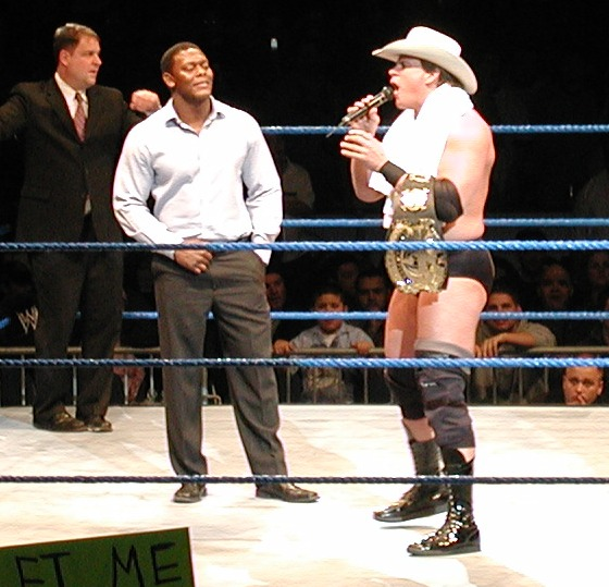 The Cabinet: Orlando Jordan and WWE Champion John "Bradshaw' Layfield. Allstate Arena, January 6en:2005.